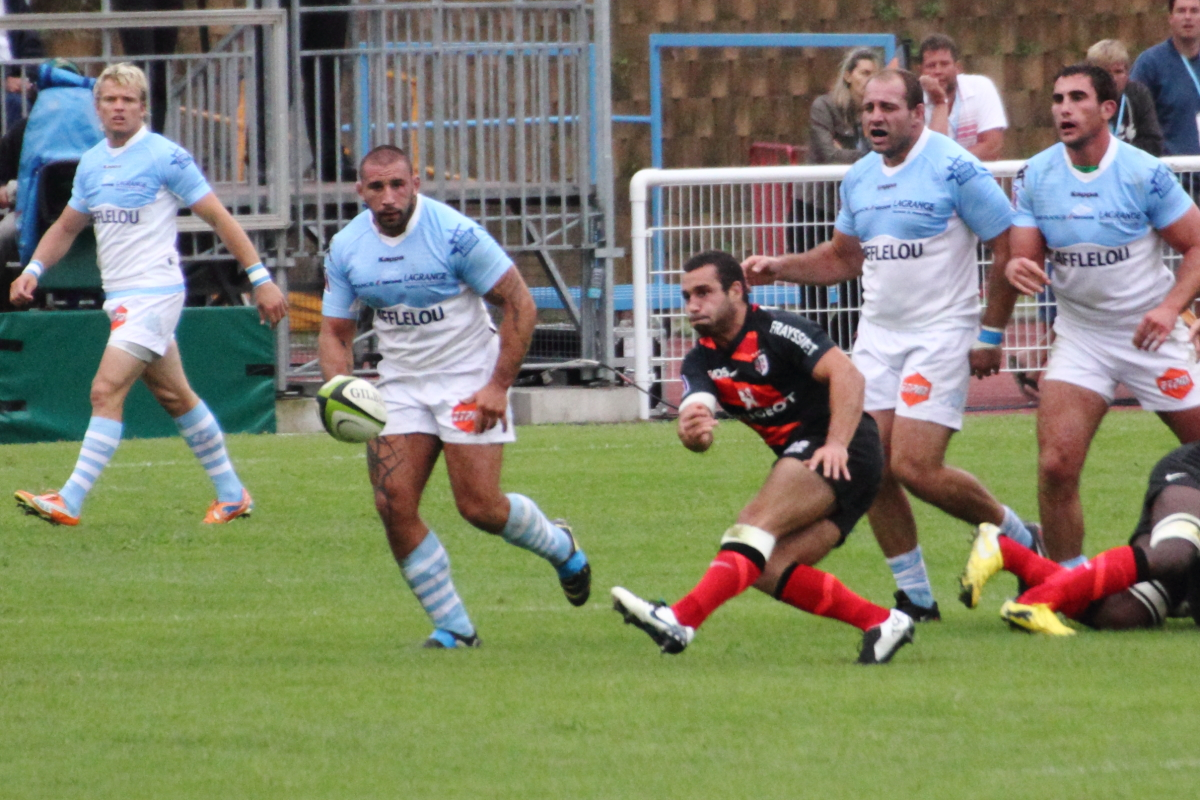 Jean-Marc Doussain after passes the ball after extraction from a ruck